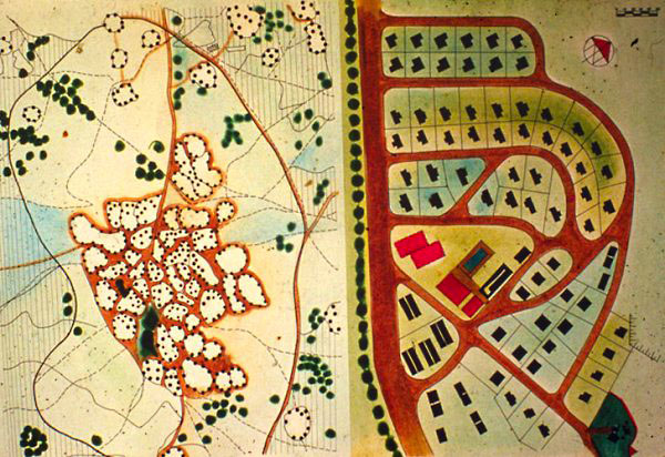 Same-scale ground plans of the village of the dam's engineers and technicians (right) as compared to a traditional village (left). Roger Katan, Selingue Dam population displacement project, Mali, 1979-80.